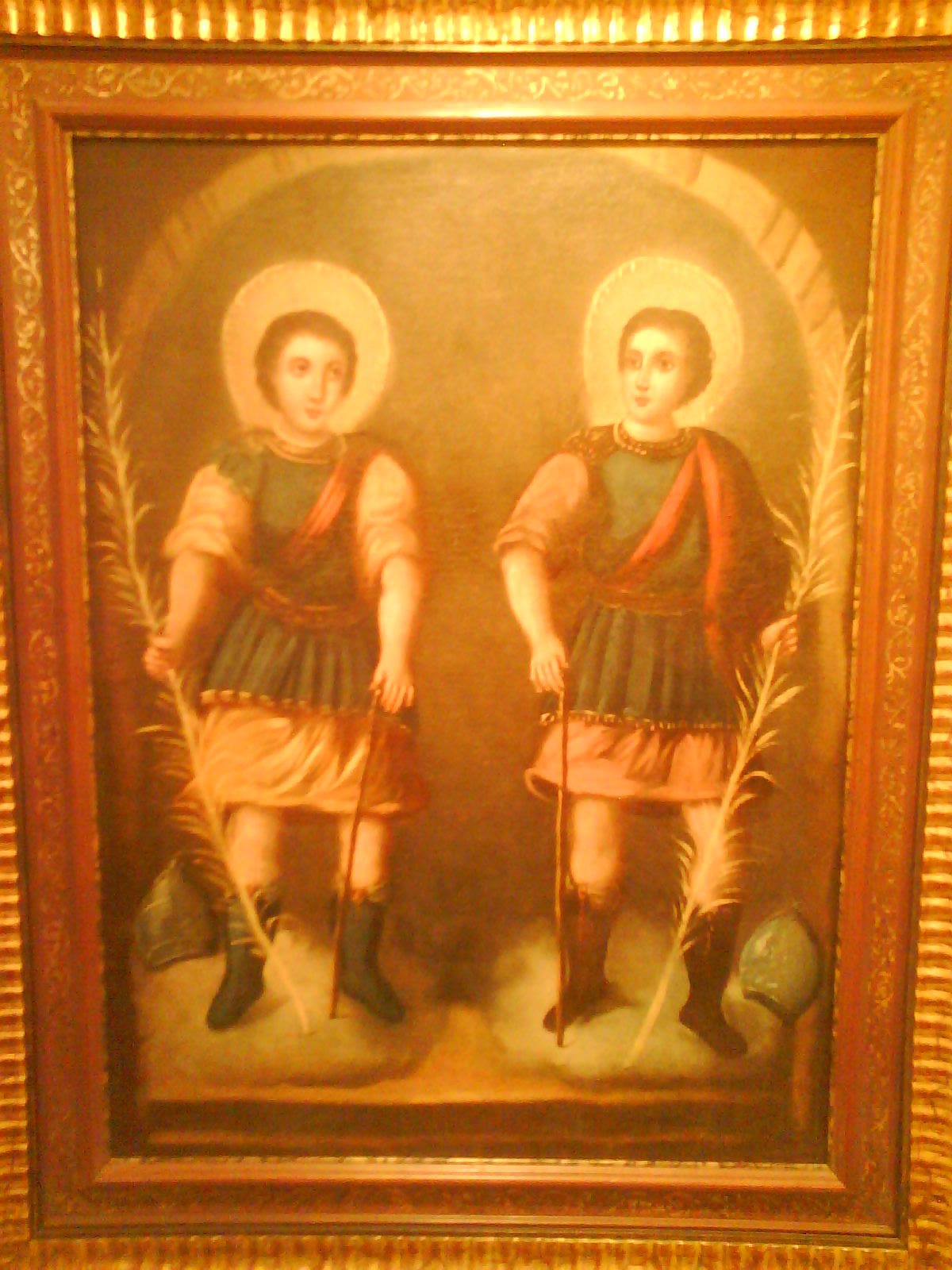 Painting with saints Bonosus and Maximianus, legendary martirs from Arjona, Jaén, Spain